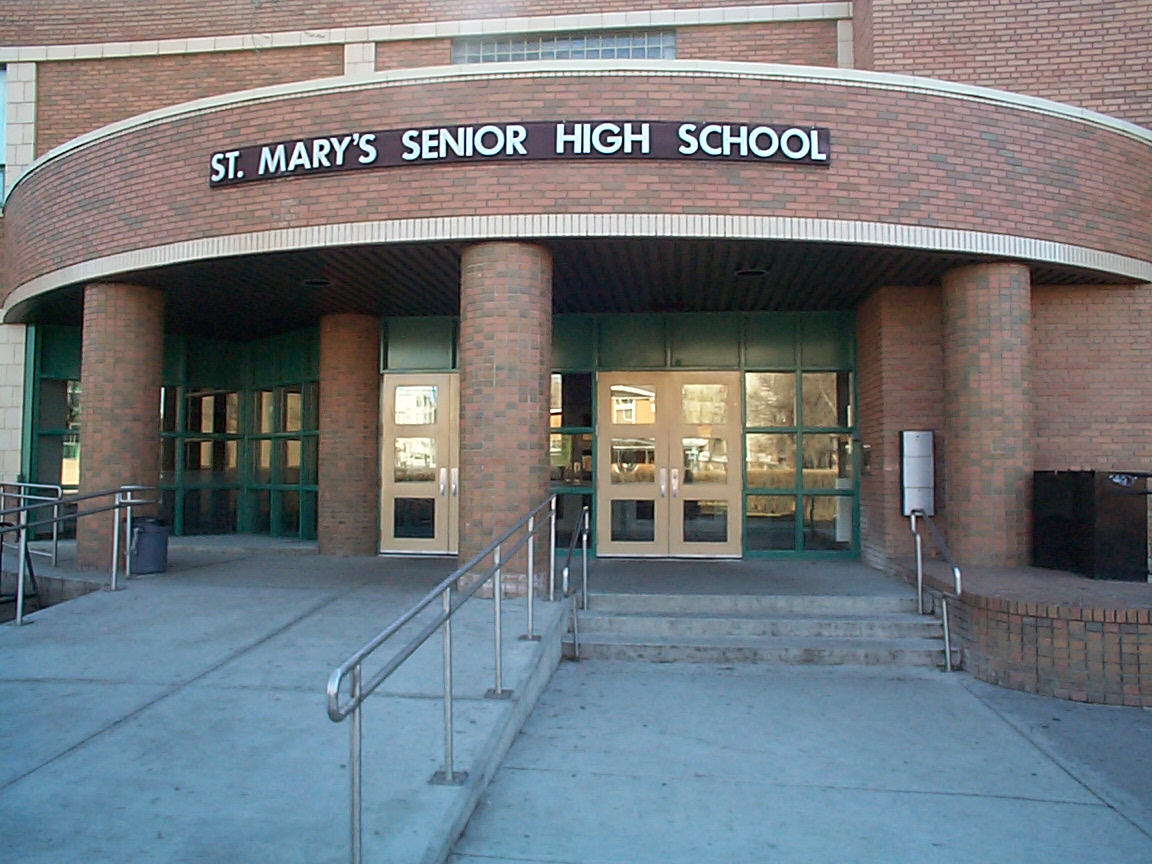 St. Mary's High School (Calgary, Alberta) is operated by the Calgary Catholic School District. This is the front entrance of the building.